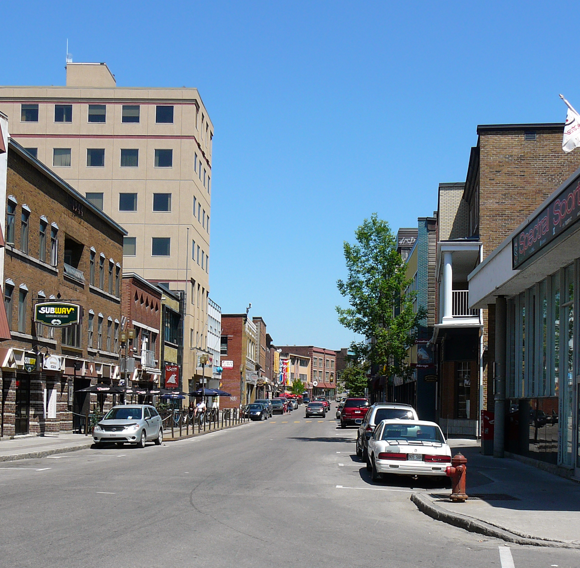 Rue Racine, Chicoutimi